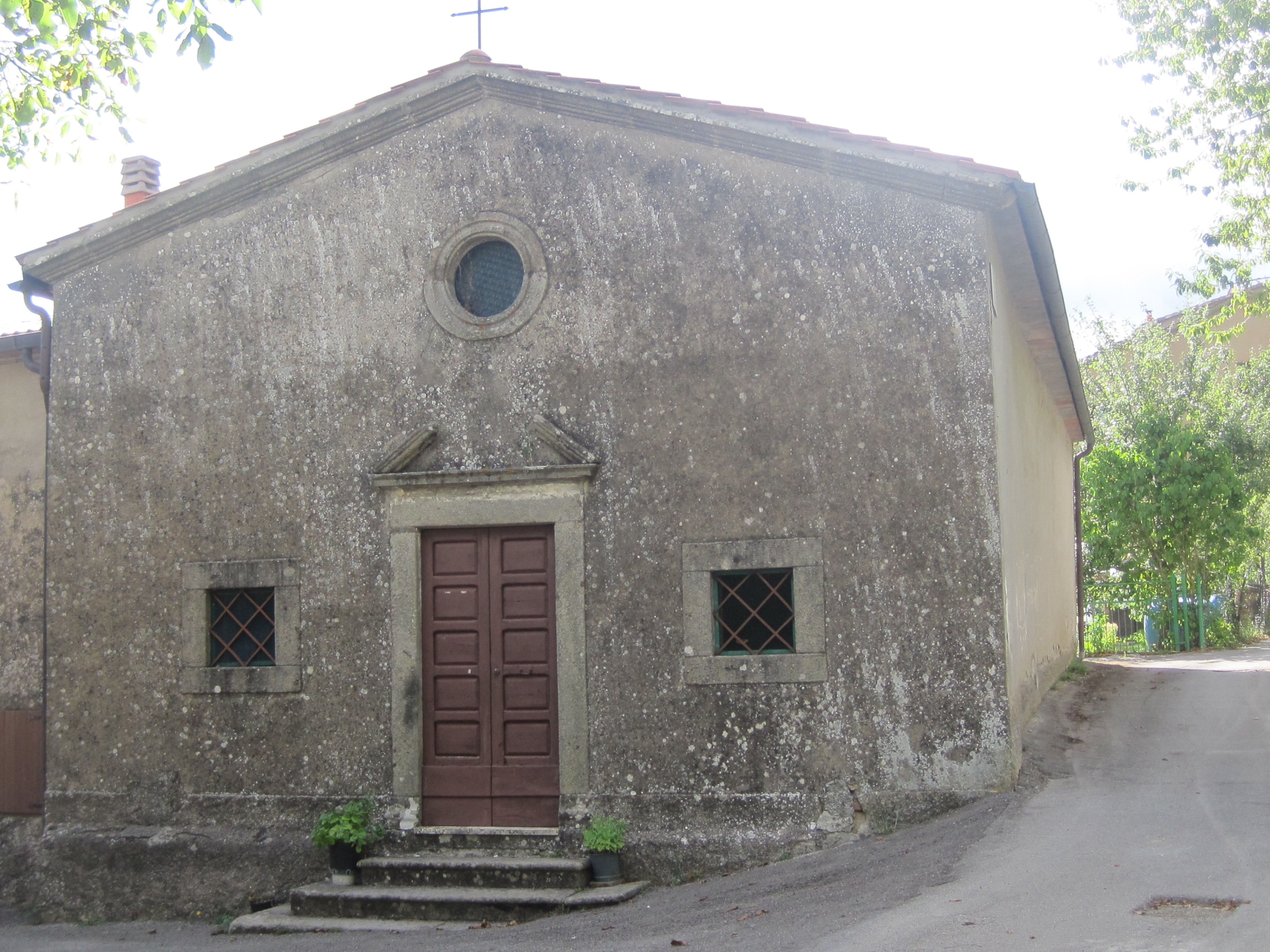 Church of Sant'Anna in Zancona (Grosseto)